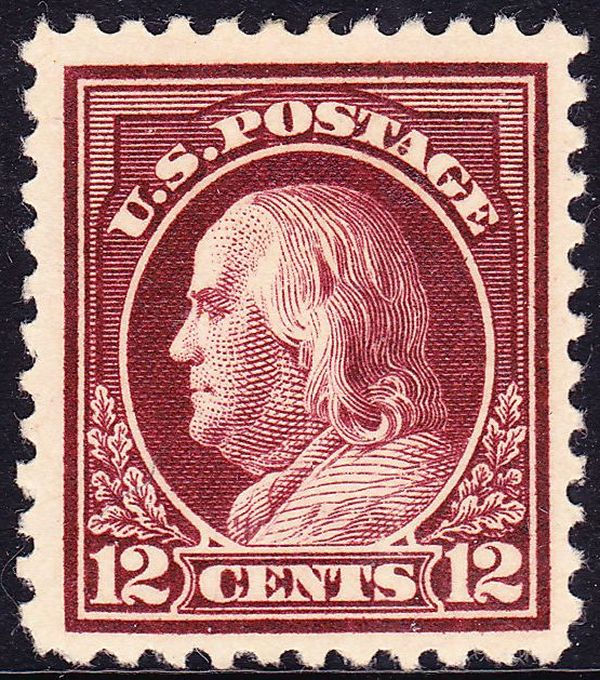 US Postage stamp, Franklin, 1917 issue, 12c, claret red